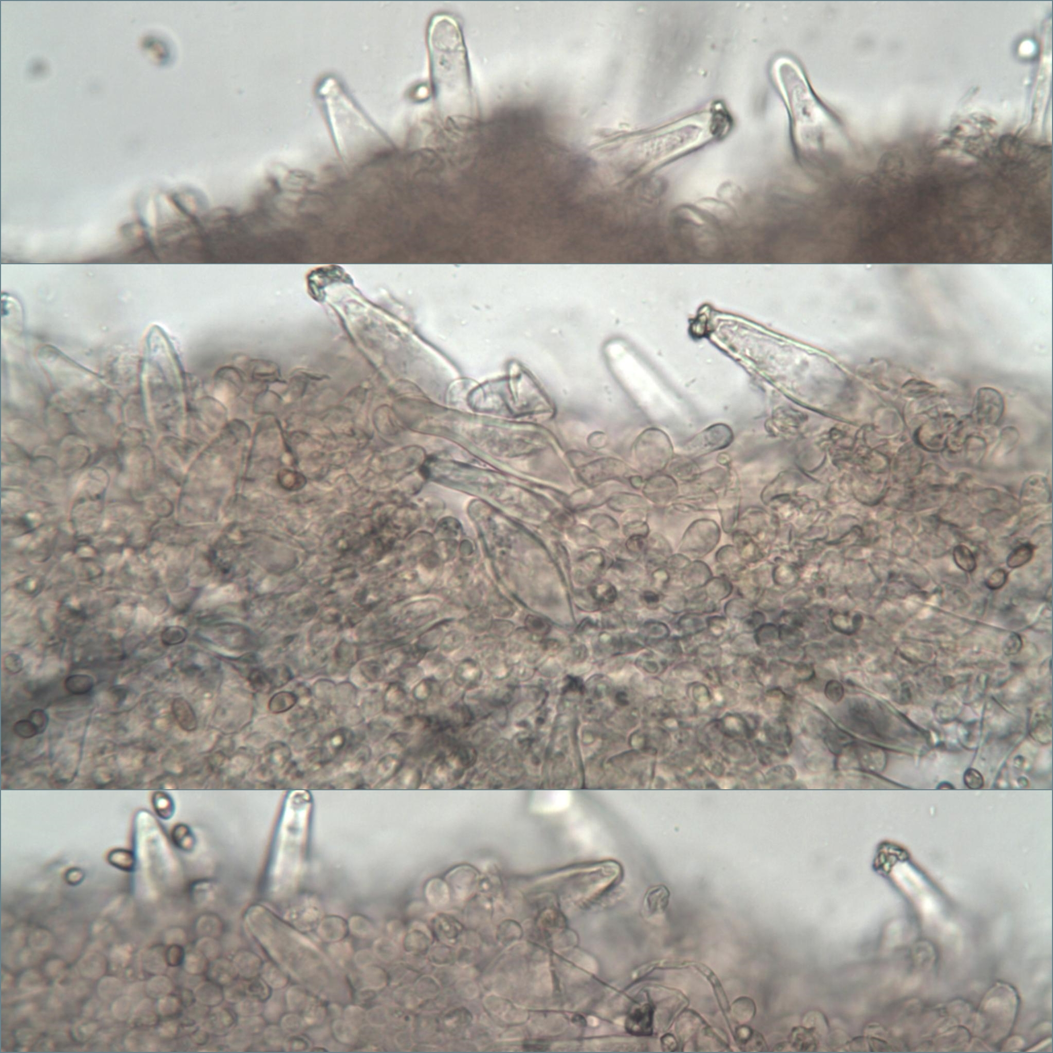 Inocybe langei R. Heim Observation Notes: A microscopic view: Gill edge (in water) of Inocybe langei fungi. For more information about this, see the observation page at Mushroom Observer.